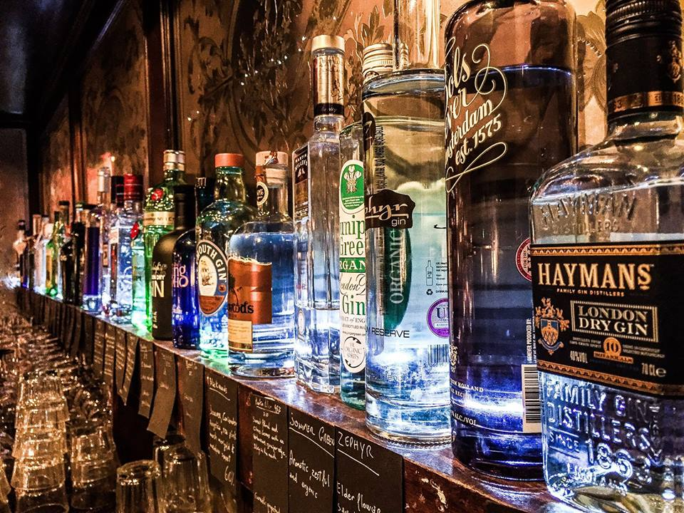 Over 50 Gin